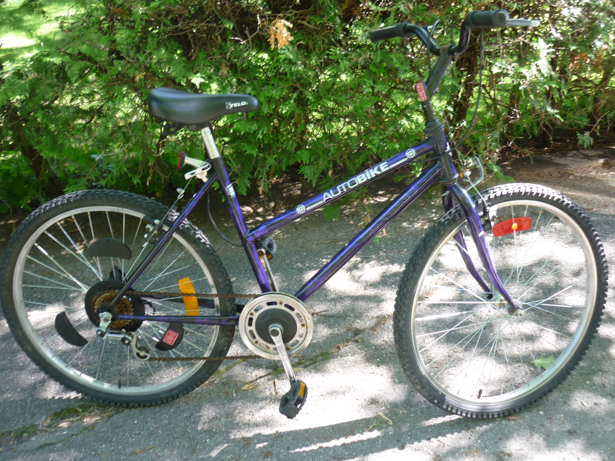 Autobike